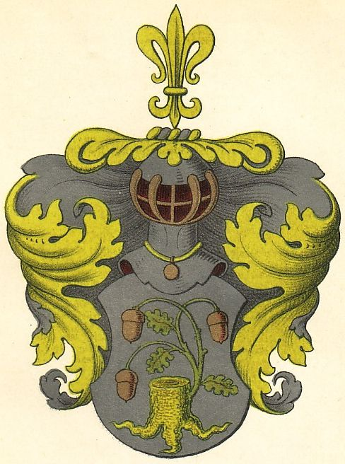 Coat of arms of the Friis of Landvig family